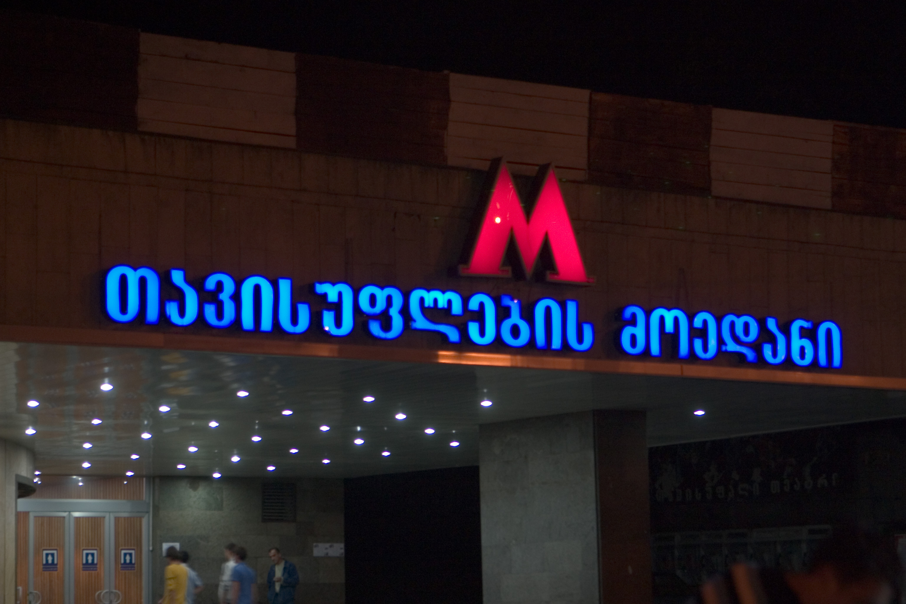 tavisuplebis moedani Tbilisi Georgia